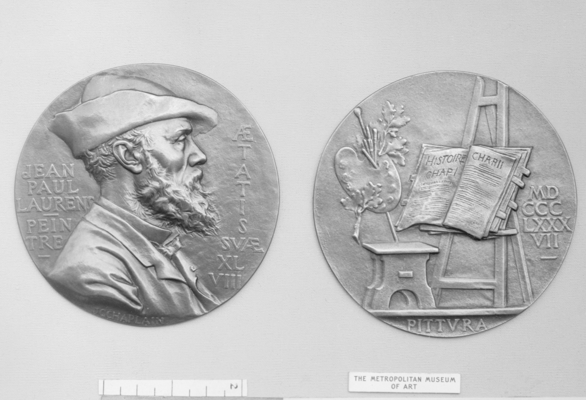 French; Medallion; Medals and Plaquettes